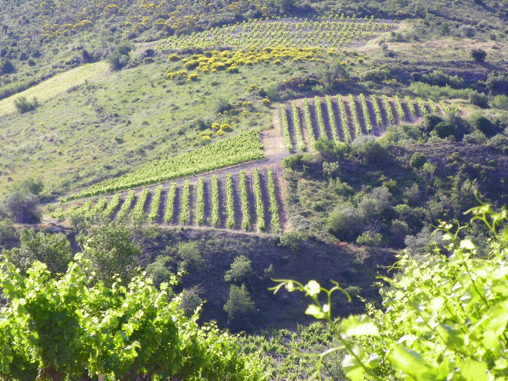 Vines AOC Fitou